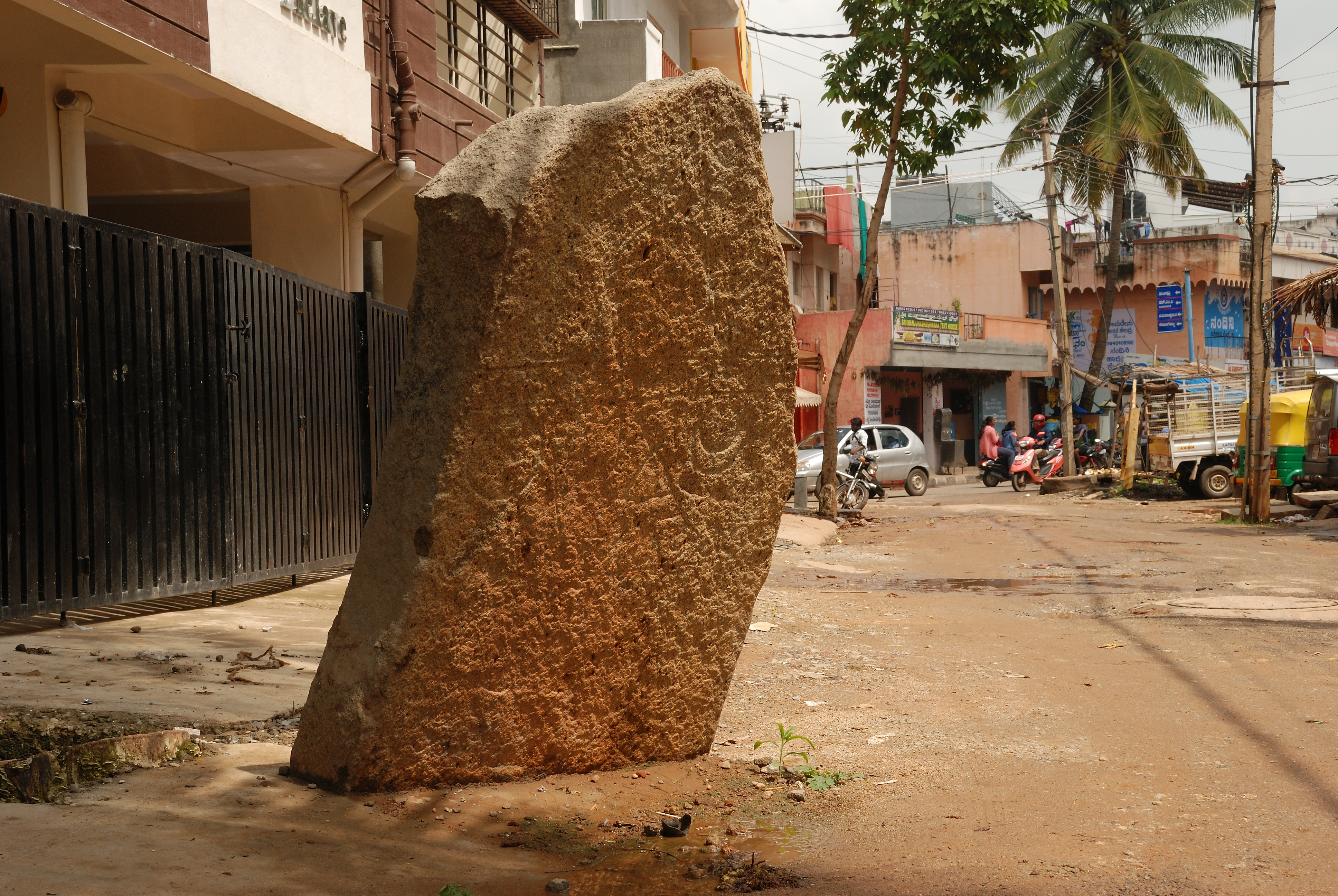 inscriptionstonesofbangalore Thindlu inscription stone English transliteration Svasti srimatu S’aka-varusangalu 128l sandu Plavang-samvatsara-Pushya-ba.. So-dalu srimanumaha-maudalesvara ari-raya-vihada bhashege tappuva rayara ganda chatus-samudradhipati vira-Bukkanna . . . . . . . . English translation Be it well. (On the date specified), when the maha-mandalesvara, subdue of hostile kings, champion over kings who break their word, master of the four oceans, Bukkanna……(rest effaced). Kannada transcription ಸ್ವಸ್ತಿಶ್ರೀಮತುಶಕವರುಸಂಗಳು12.ಸಂ ದುವಲನಂವತ್ರ ರಪುವ್ಯಬ.....ಗೋದಲು ಶ್ರೀ ಮನುಮಹಾಮಂಡಳೇಶ್ವರ ಅರಿರಾಯವಿ ಭಾಡಭಾಪೆಗೆತಪ್ಪುವರಾಯರಗಂಡಚತುಸ್ಸ ಮುದ್ರಾಧಿವತಣಿರುಬುಕ್ಕಂಣ.......